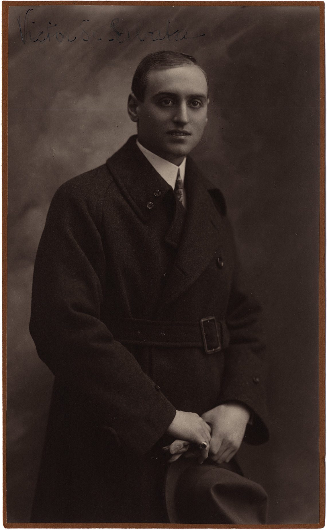 Portrait of Victor de Sabata, composer (1892-1967). Photo by unknown, before 1967.